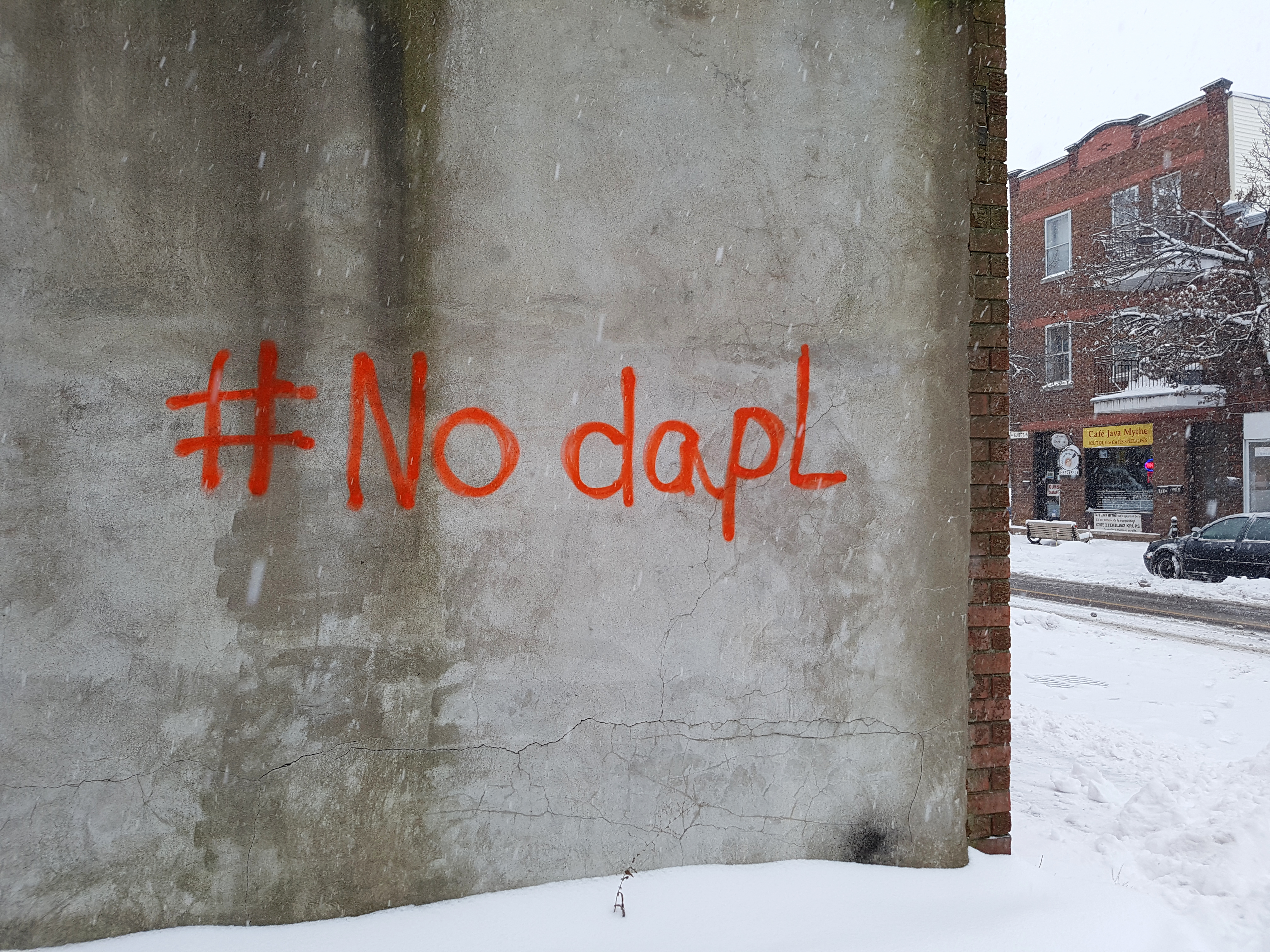 hashtag activism through the #noDAPL hashtag